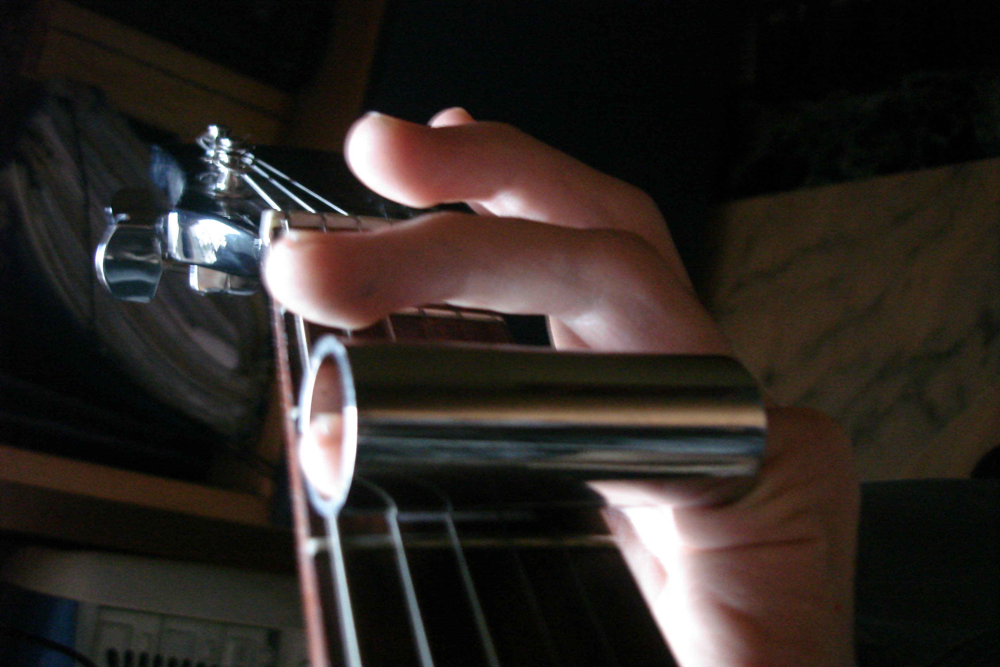 A "slide" being used on a guitar